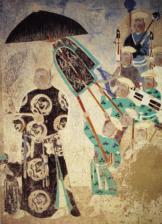 Uighur king from Turfan attended by servants. Cave 409, Western Xia